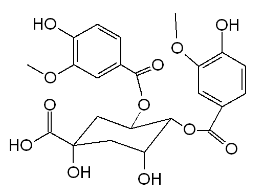 Chemical structure of burkinabin C